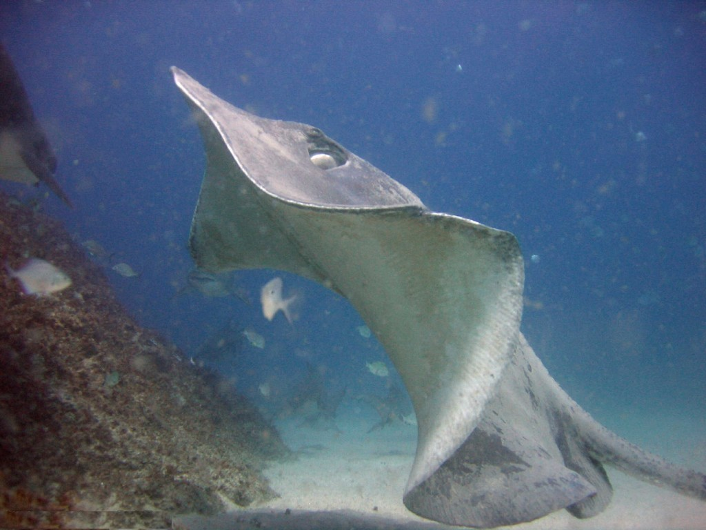 A Black Stingray (Dasyatis thetidis) leaves the sandy bottom. Green Island, South West Rocks, NSW